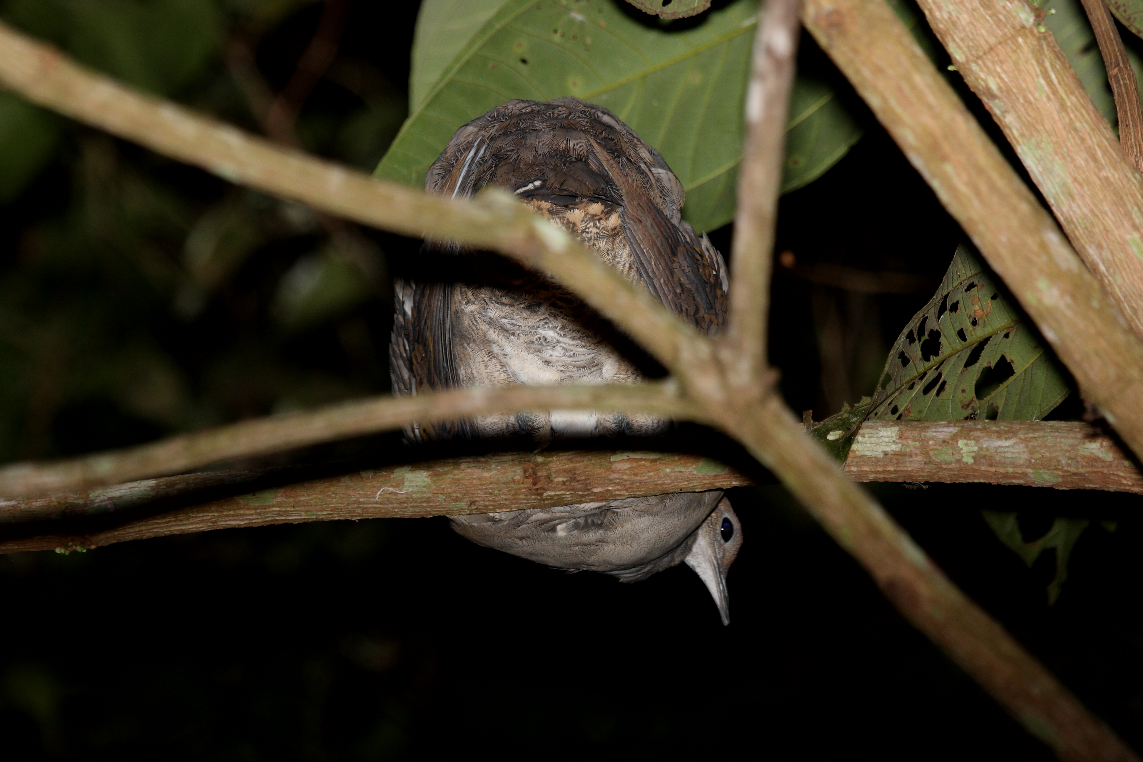 Photographed at Semaphore HIll, Canopy Tower, Panama.